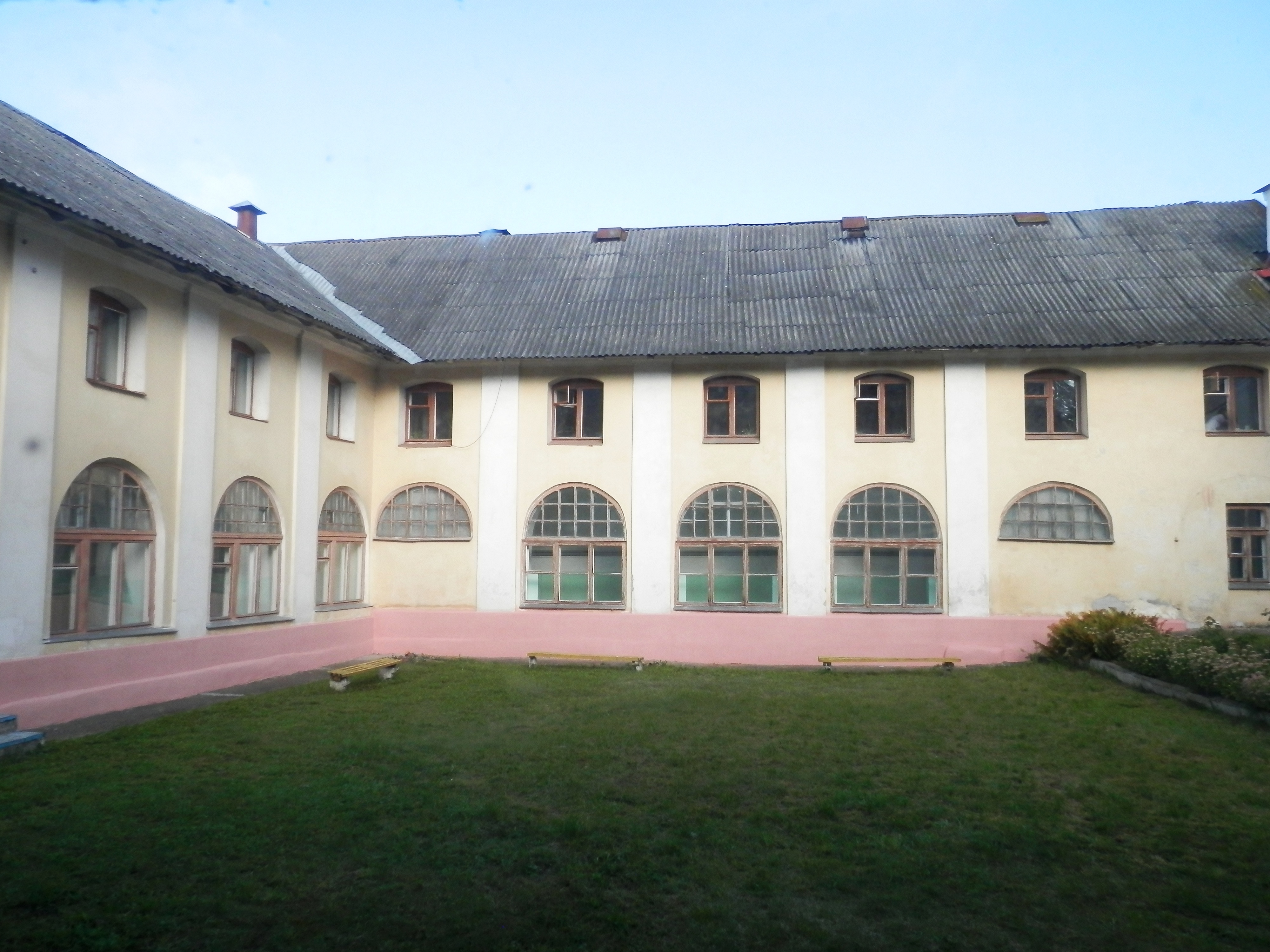 Franciscan church of St. Mary of the Angels and monastery in Hrodna